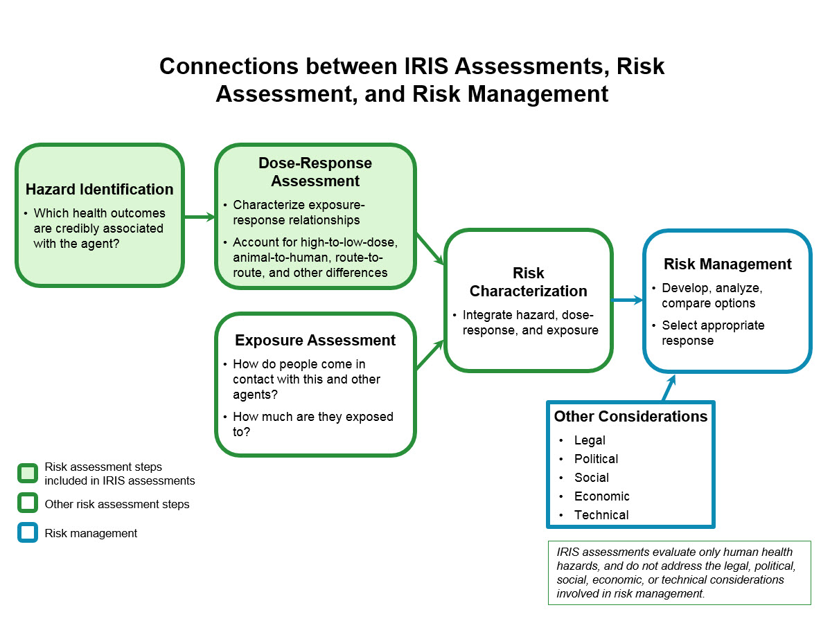 Diagram about the EPA Integrated Risk Information System (IRIS). "Connections between IRIS Assessments, Risk Assessment and Risk Management.